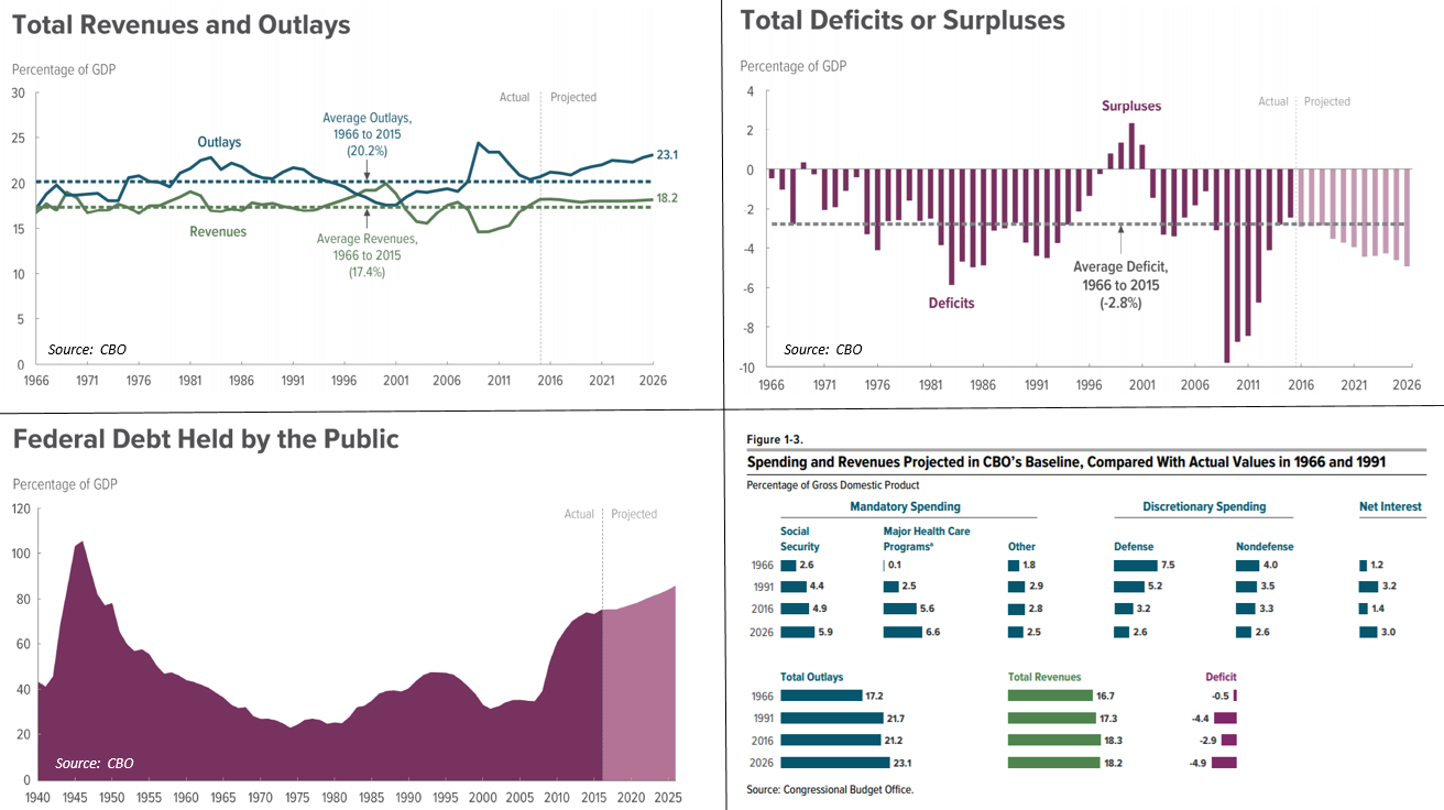 Four CBO charts with expense, revenue, deficit and debt information.